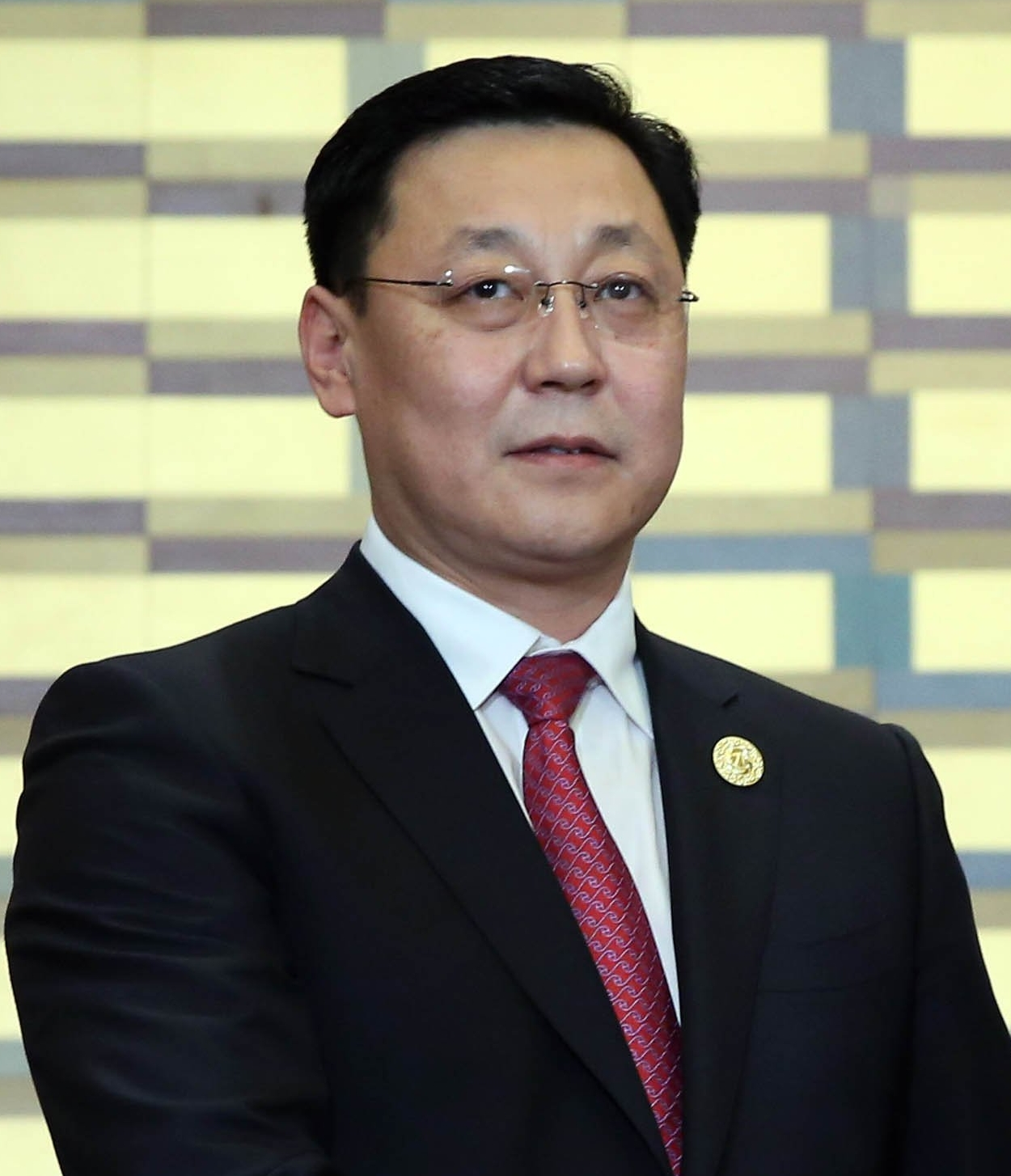 Mongolian Prime Minister Jargatulgyn Erdenebat